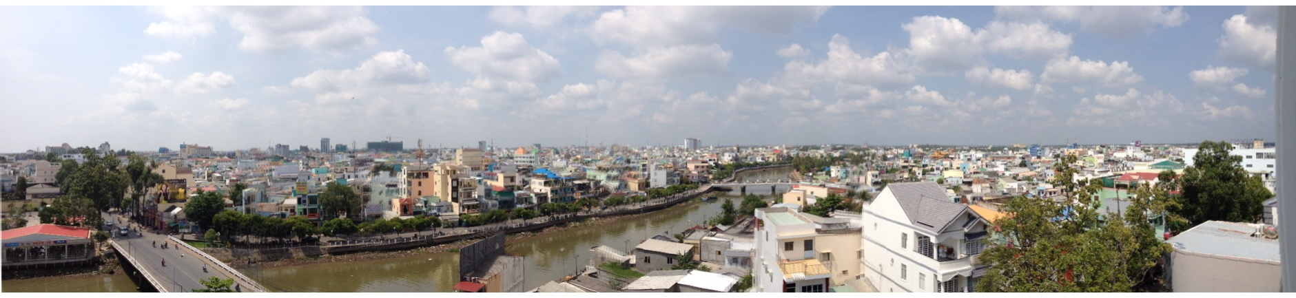 Can Tho Panorama